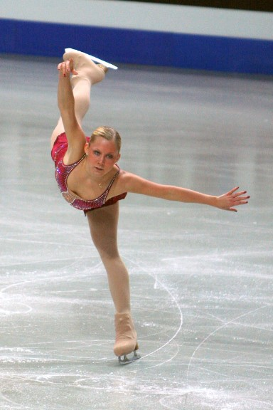 Lina Johansson performs a spiral at the 2007 European Figure Skating Championships.